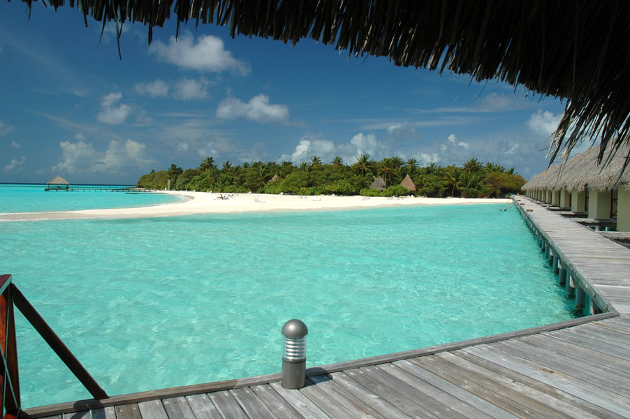 The Maldivian island and resort of Moofushi taken from the overwaters jetty.